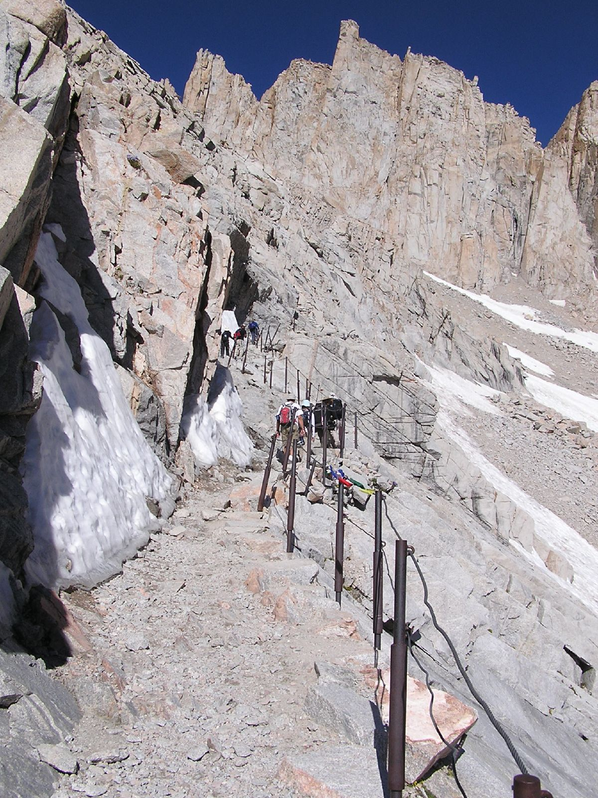 Prayer flags tied to the railing at the most exposed section of Mount Whitney Trail's switchbacks. Trail Crest Tower, a needle and subpeak of Mount Muir, is visible above.